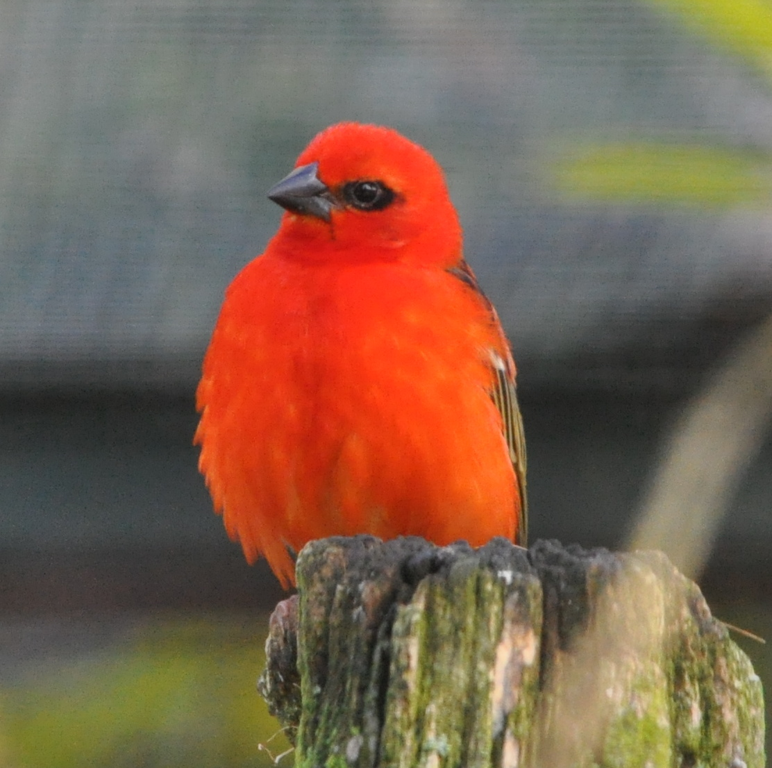 Madagascan Red Fody (Foudia madagascariensis) in the Walsrode Bird Park, Germany.